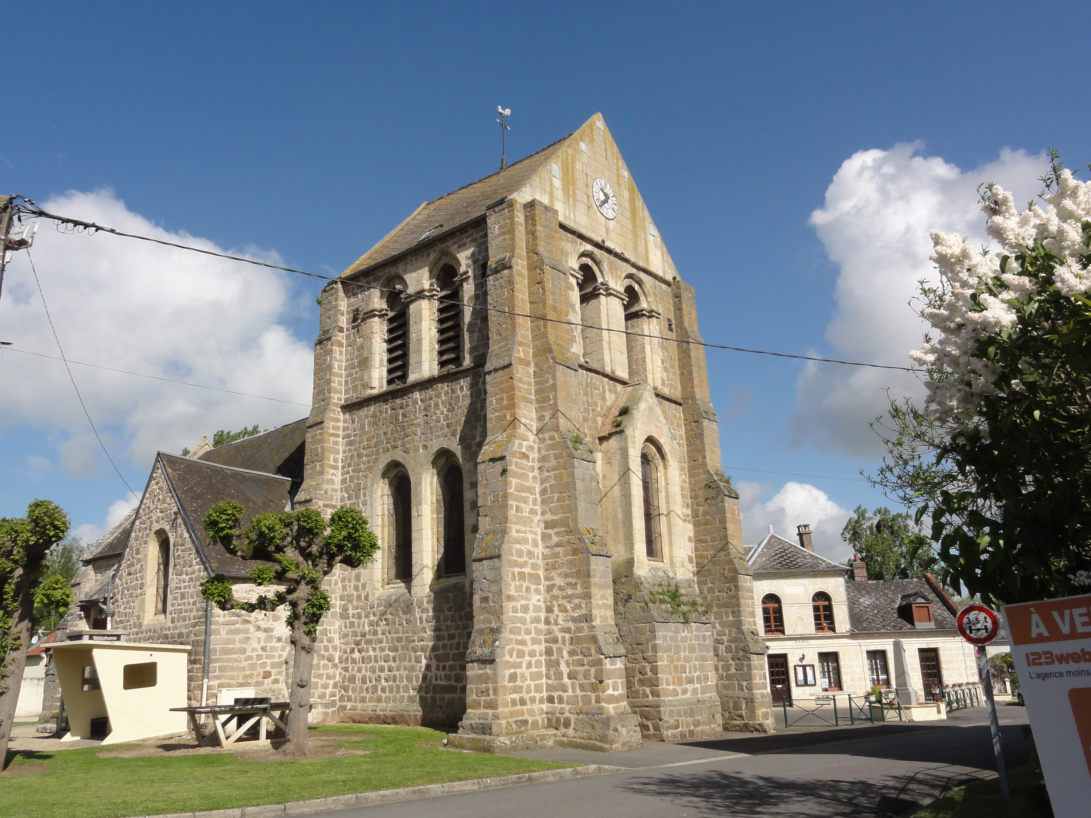 Laniscourt (Aisne) église